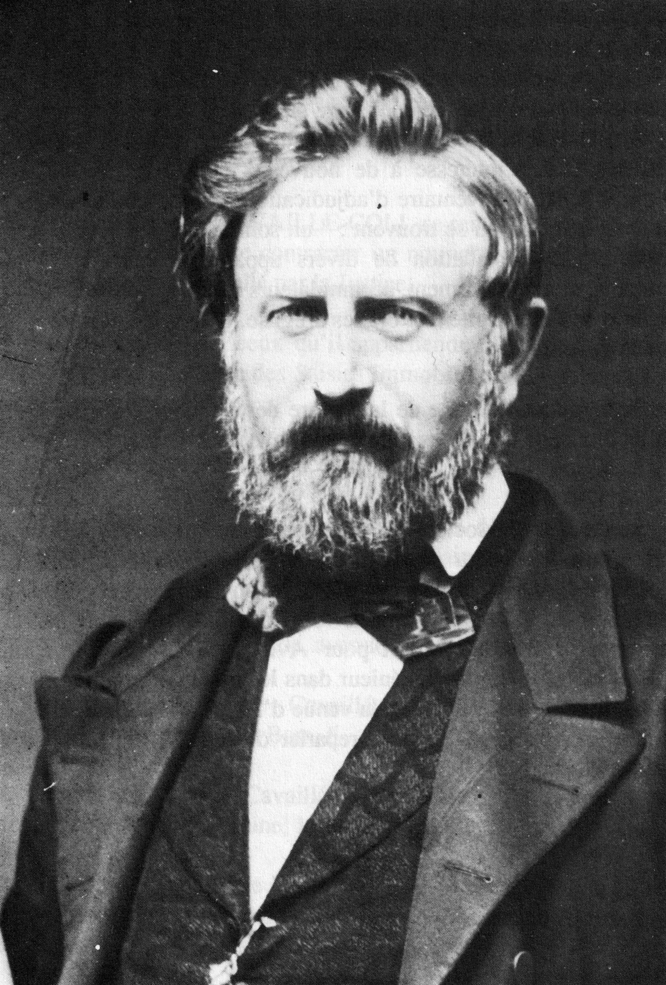 Aristide Cavaillé 1865